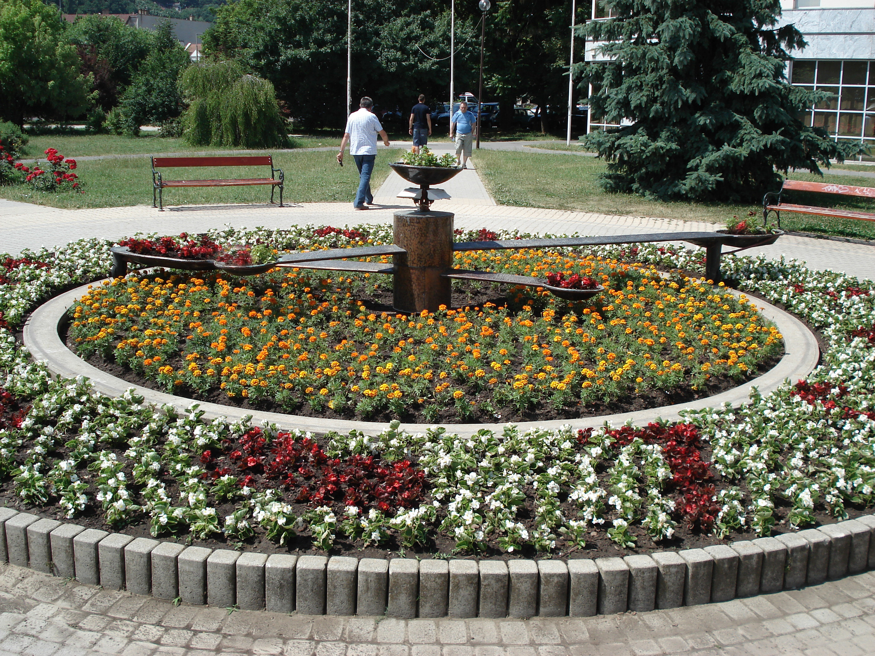 Flower Clock, Szt. István Squaire, Miskolc, Hungary